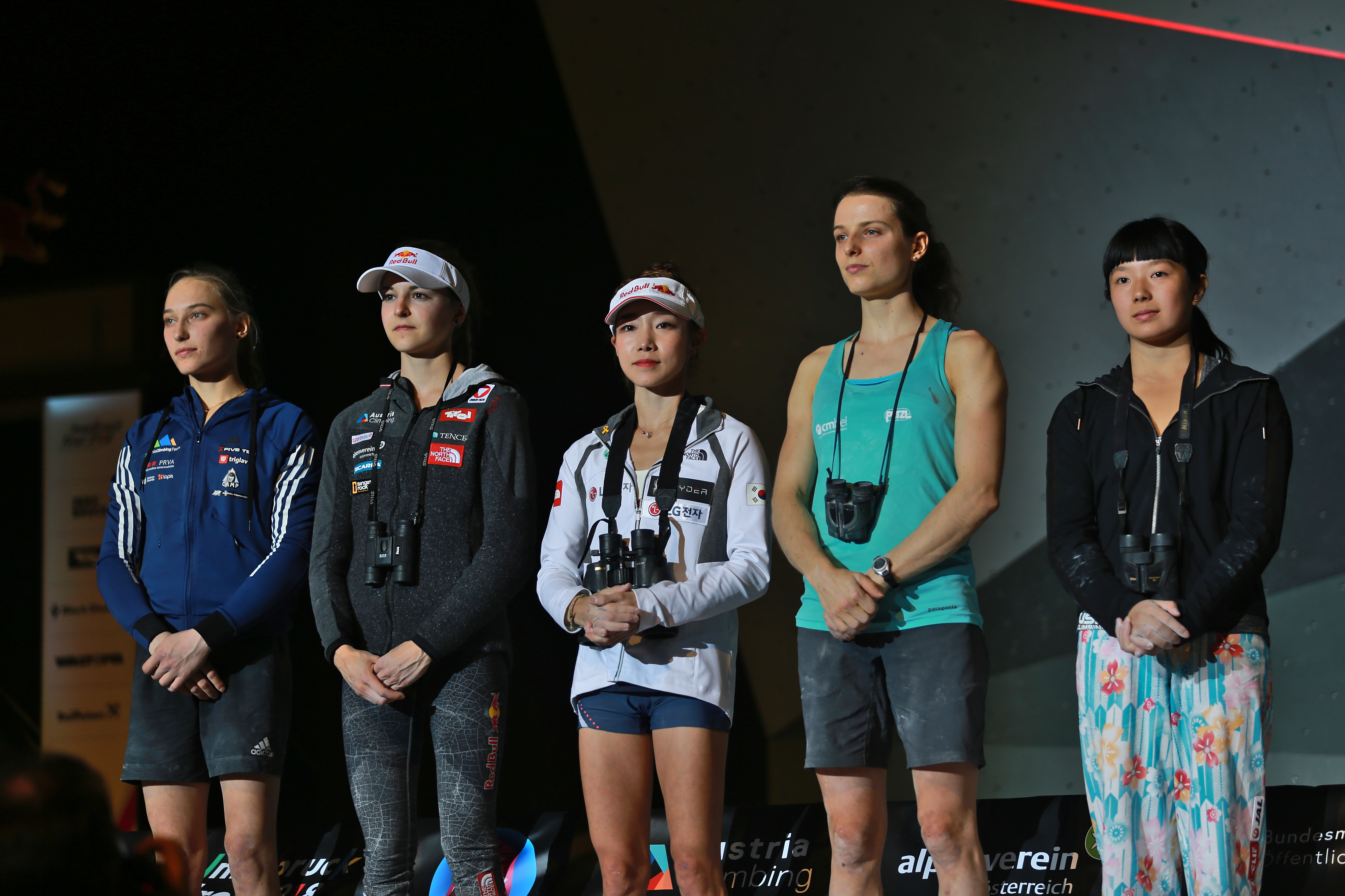 Finalists of IFSC Climbing World Championships Innsbruck 2018 Final WOMAN lead